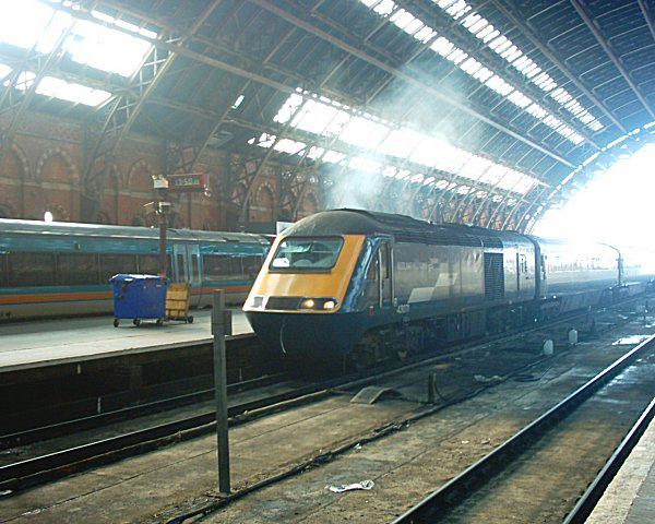 A Midland Mainline HST at St Pancras station.